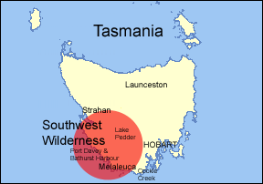 Map of Tasmania Highlighting South West Wilderness. Map modified by jjron from original by Diceman, 28 May & 11 June, 2006.